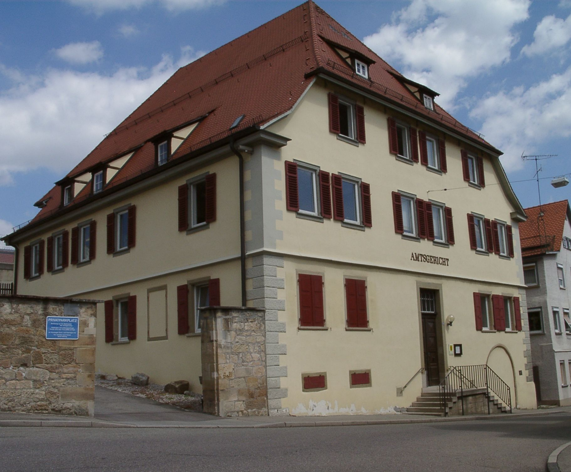 Amtsgericht Rottenburg (Local Court Rottenburg). Building of the Amtsgericht in Rottenburg am Neckar admin. district of Tübingen (State of Baden-Württemberg / Germany). Higher-ranking courts: Landgericht Tübingen (Regional Court of Tübingen) and above the Oberlandesgericht Stuttgart (Appellate Court of Stuttgart).